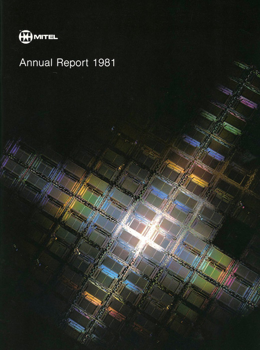 Hans Blohm's photograph of a microchip appearing on the cover of Mitel's 1981 Annual Report.